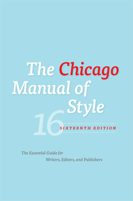 CMOS 16 cover image.